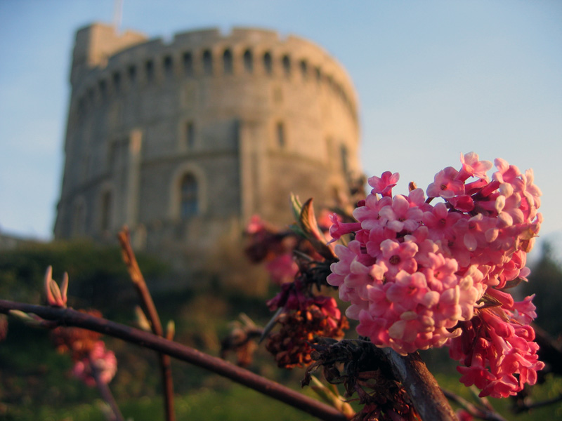 A photograph of a flower with the Windsor Castle round tower blurred in the background. I took this picture myself on March 19, 2005.